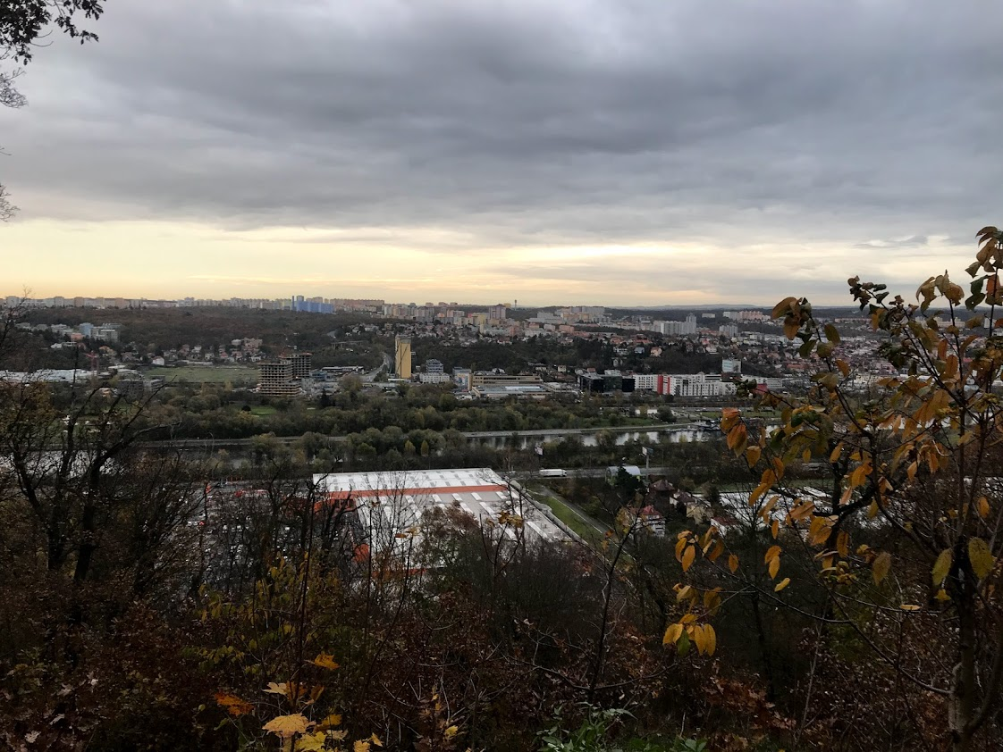 Výhled nad Velkou Chuchlí.